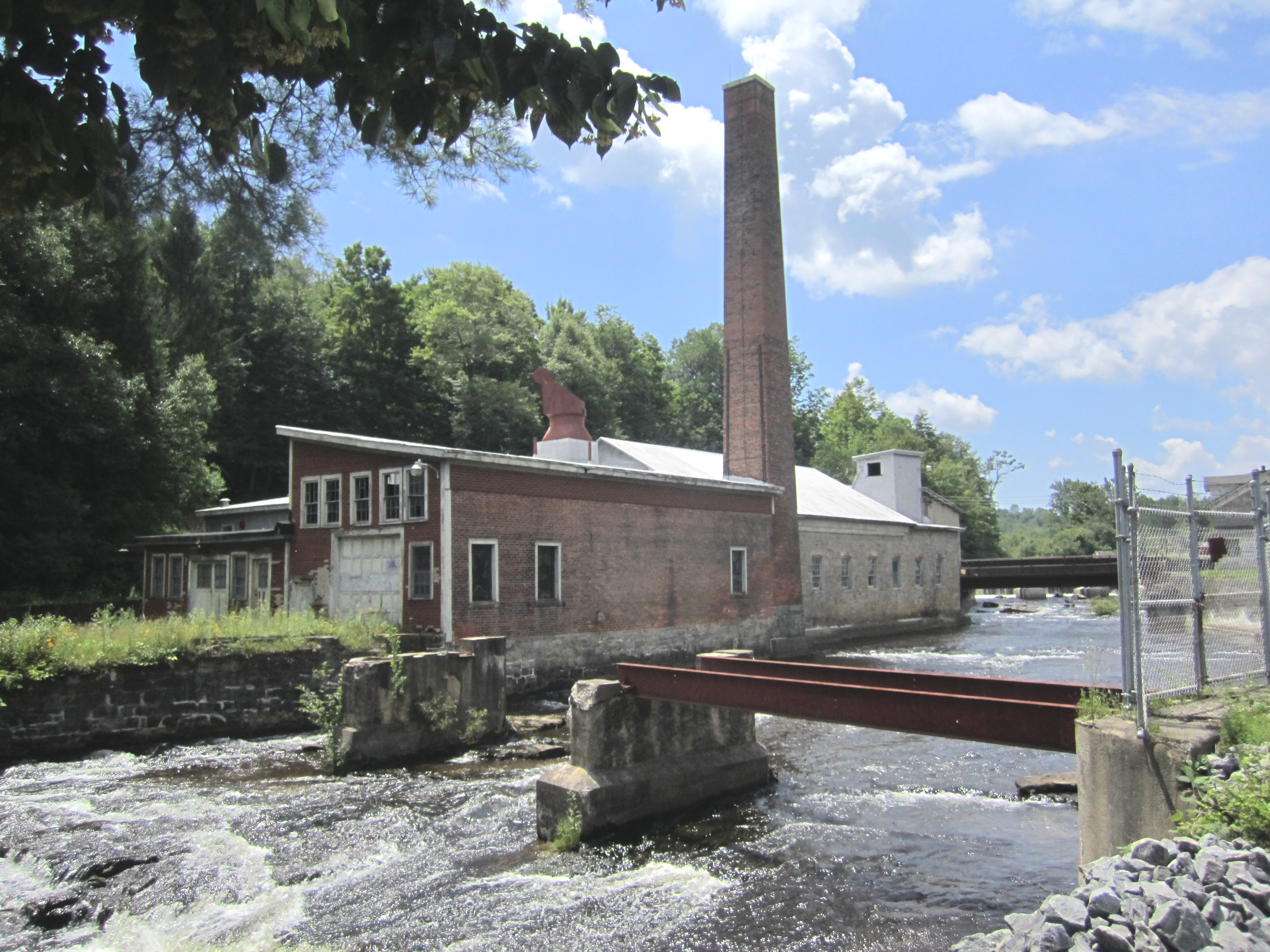 George West's first mill in Rock City Falls (Saratoga County) New York. Note the older section to the right is built of stone blocks; the newer, left-hand section is brick.